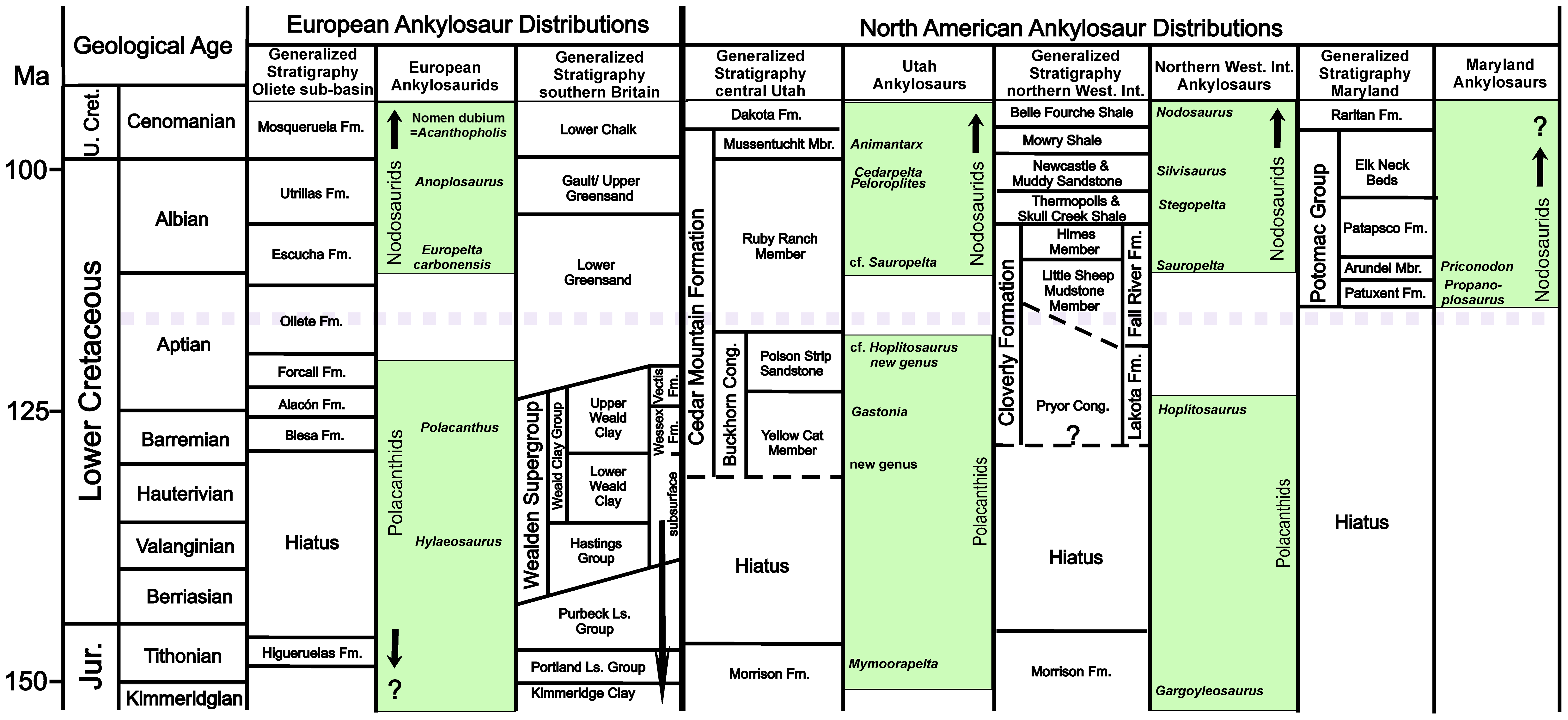 Distribution of polacanthids and nodosaurid ankylosaurs in Europe vs. that of North America. Dashed gray line indicates interval of ankylosaur fauna turnover.